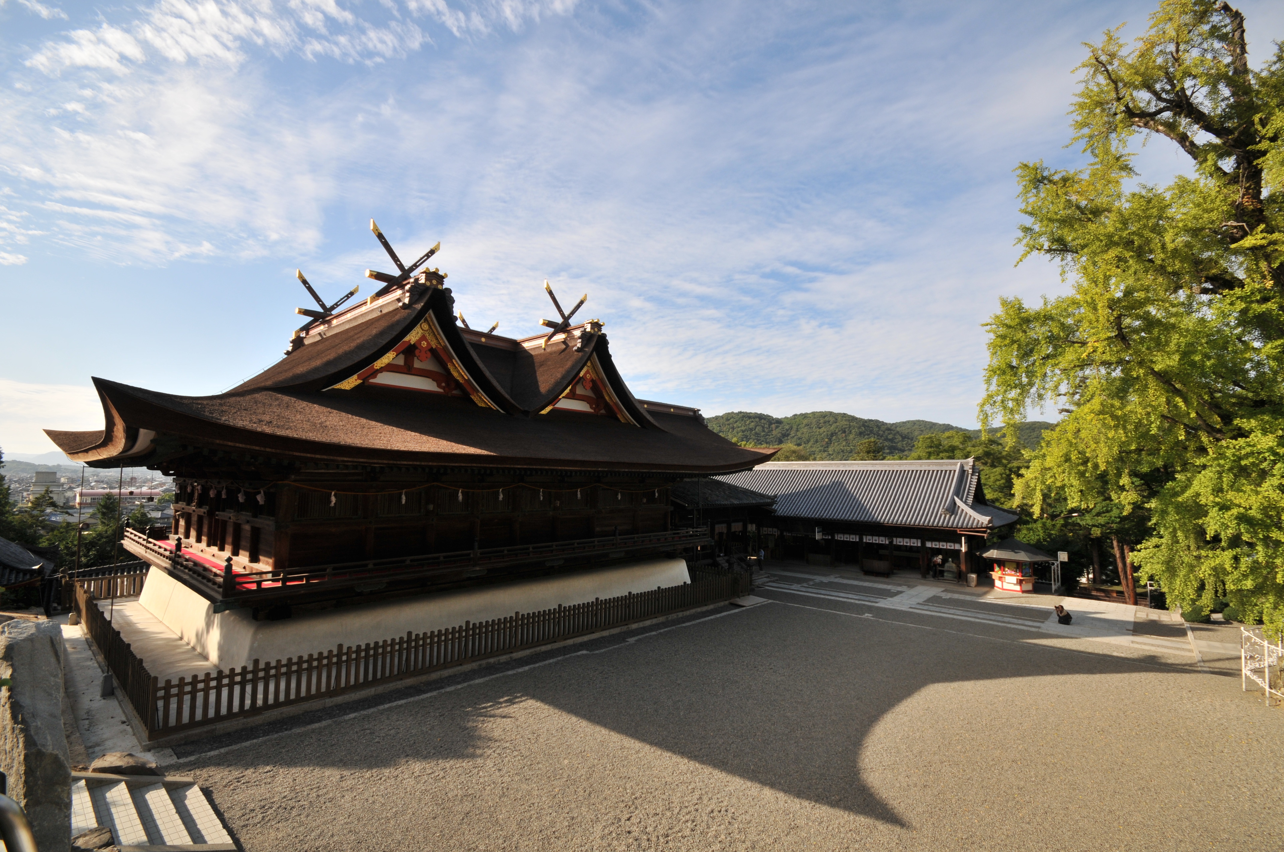 Kibitsu jinja